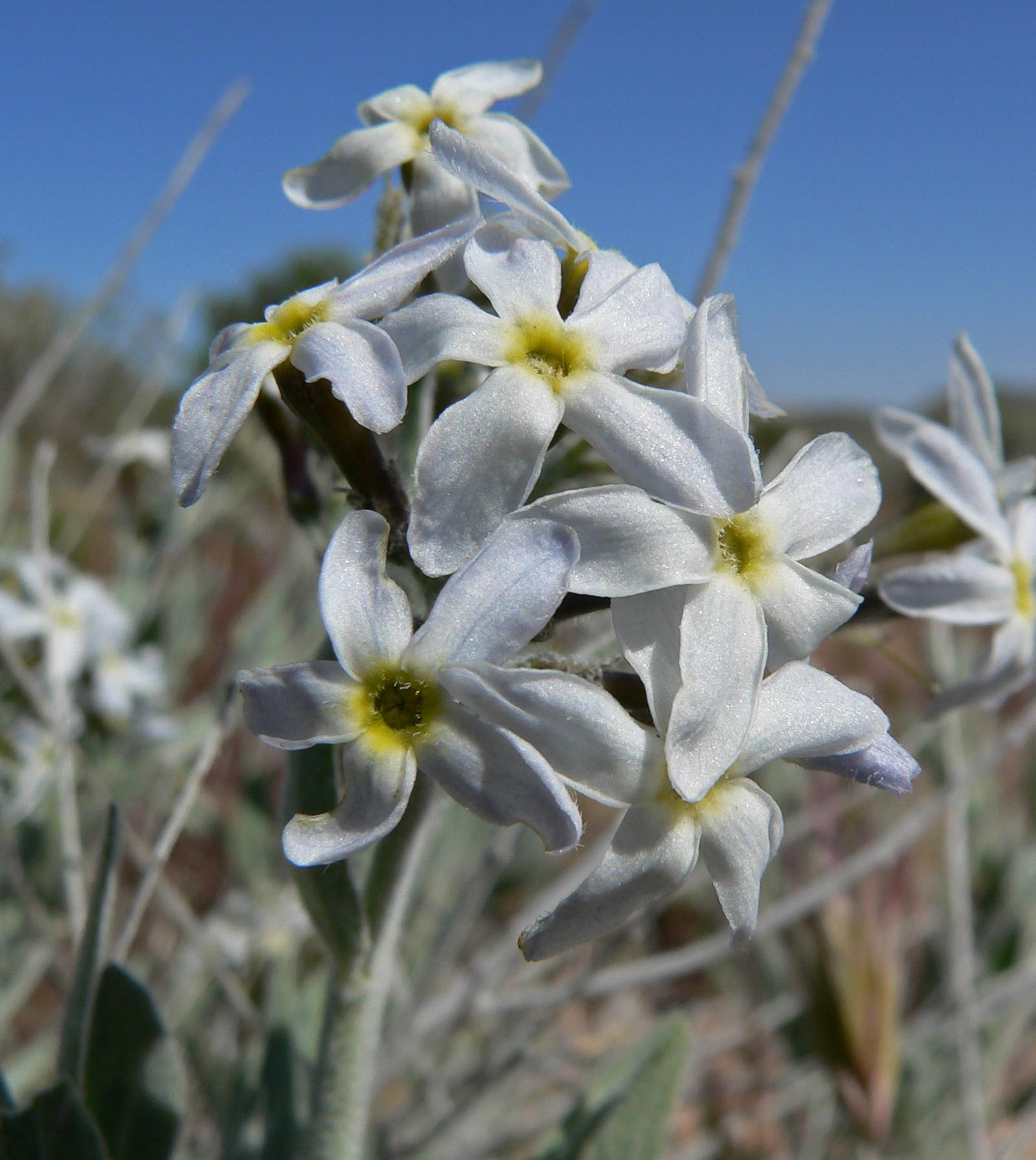 Photo of Amsonia tomentosa in Red Rock Canyon near Las Vegas, Nevada